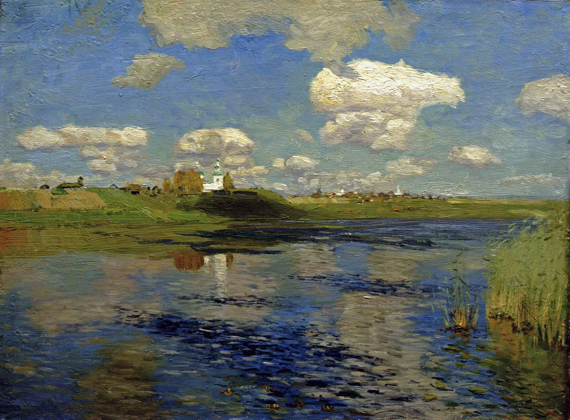 The Lake (first version of the painting by Isaac Levitan, 1888-1889)